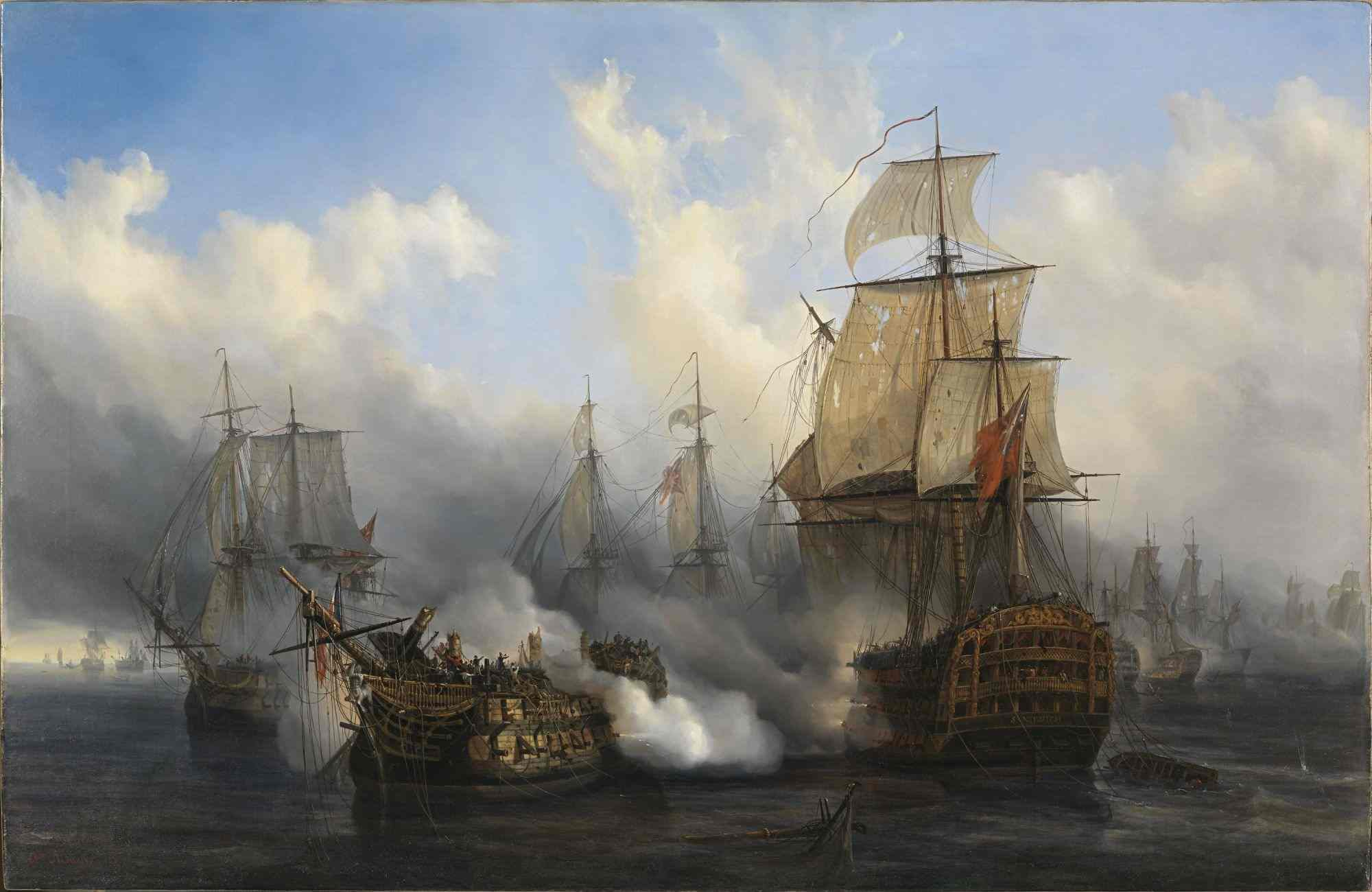 (unknown title) Auguste Mayer (1805-1890). Oil on canvas, 1836, 105 cm x 162 cm The actual title of the image is unknown, painted in 1836 by Auguste Mayer, it is suggested that the information about the painting was lost during WWII and it was given incorrect background and title when recovered. The picture is one of six that Mayer painted in 1836 about the struggle and fights of ship of the line Bucentaure during the Battle of Trafalgar (cf. Musée Nationale de la Marine website). The ship in the foreground on right (firing to the Bucentaure) is the British 2nd-rate Sandwich, not present at Trafalgar, actually being hulked for harbour duty at the time. It is therefore generally held that the Sandwich is actually the British 2nd-rate Temeraire, incorrectly titled by the artist, and the dismasted ship in foreground left is the French 74-gun 3rd-rate Redoutable. Research shows that the French ship in the foreground is actually Bucentaure, as the figurehead is that of Bucentaure, the ship is a two-decker fitting the description and design of Bucentaure and the men clustered around the mainmast fit with the events aboard the Bucentaure during the battle.